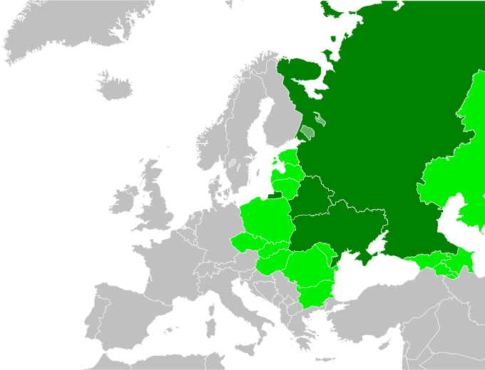 Map showing approximately location of Eastern Europe